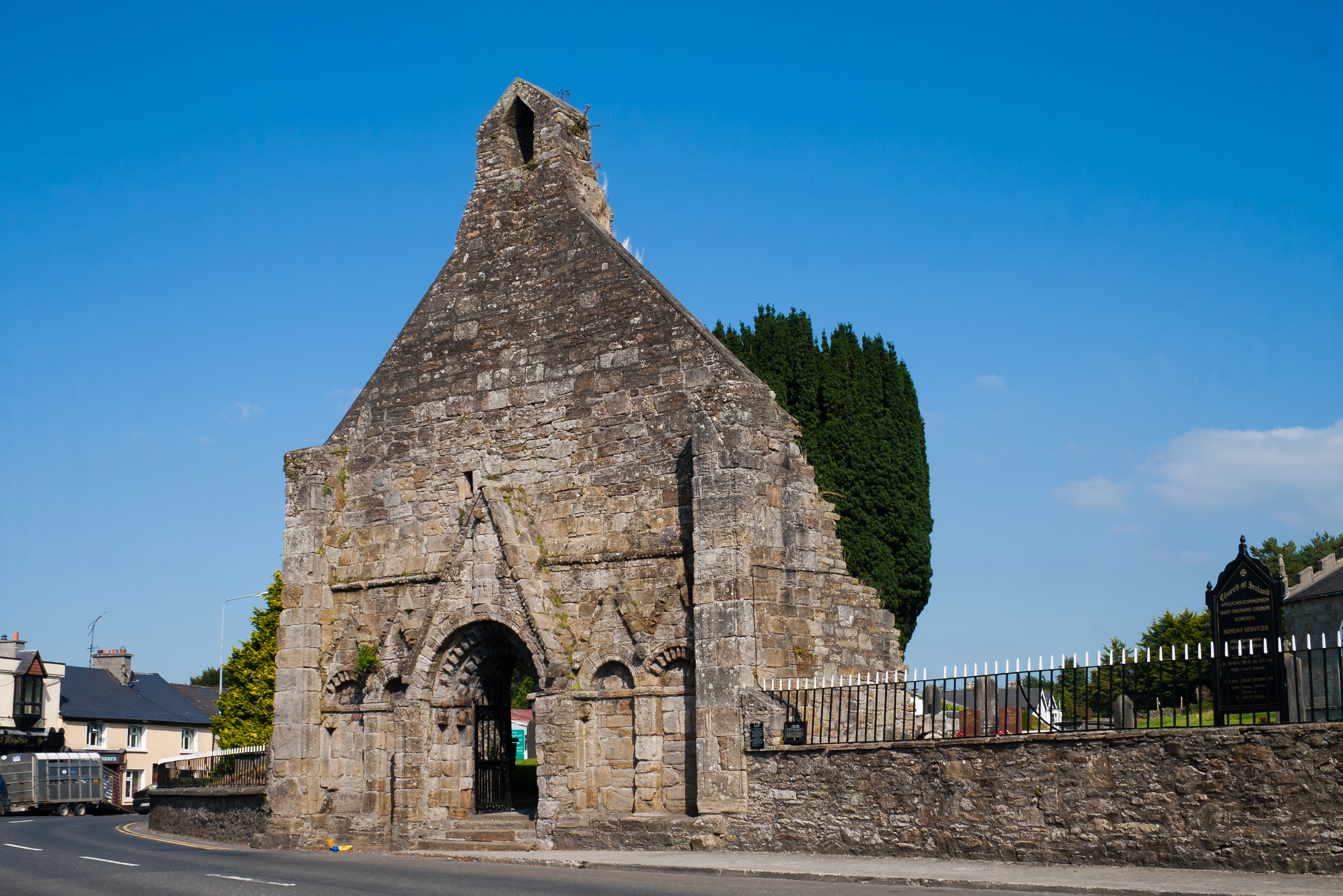 Surviving west gable of the 12th-century Romanesque church in Roscrea. This church was in use until 1812 when most of it was demolished with the exception of this gable. It serves now as gate to the Church of Ireland parish church. (See entry 1843 in Jean Farrelly and Caimin O'Brien: Archaeological Inventory of County Tipperary: Vol. I – North Tipperary, ISBN 0-7557-1264-1.)